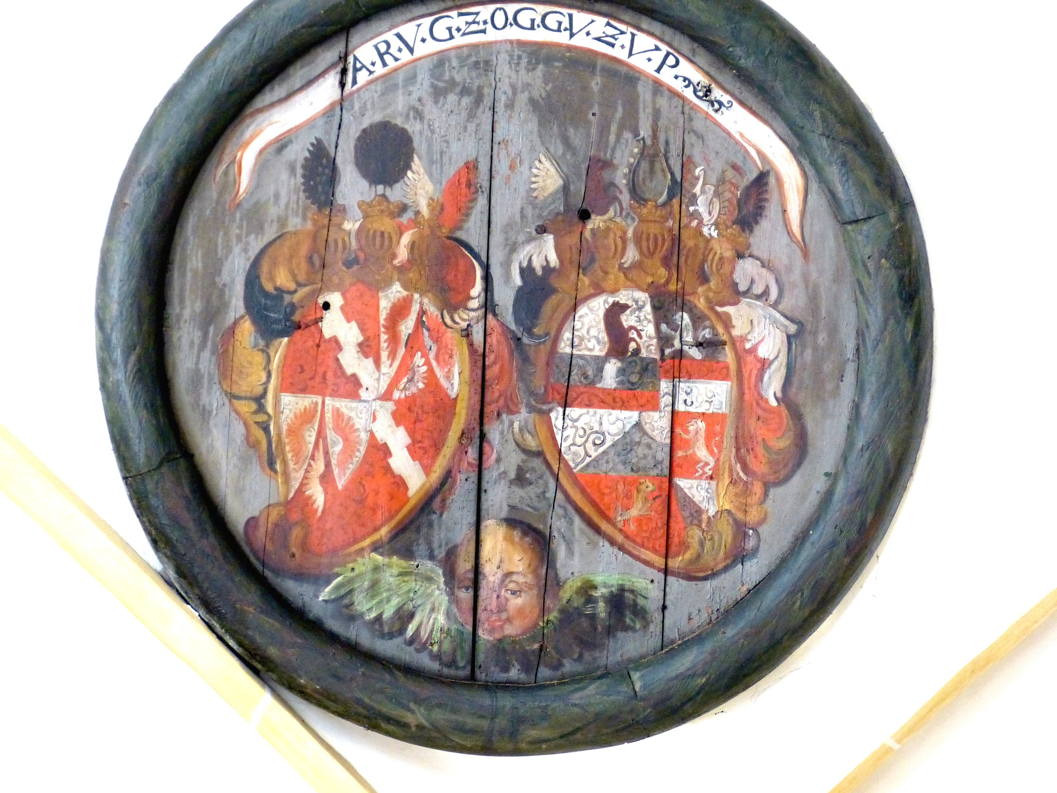 Ortenburg ( Lower Bavaria ). Parish church ( 16th century ) - Hatchment for Amalia Regina von Ortenburg ( + 1709 ).